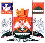 Savski Venac coat of arms. - official website of the City of Belgrade